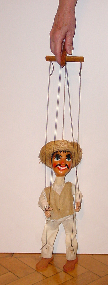 Mexican puppets with threads. Private collection.